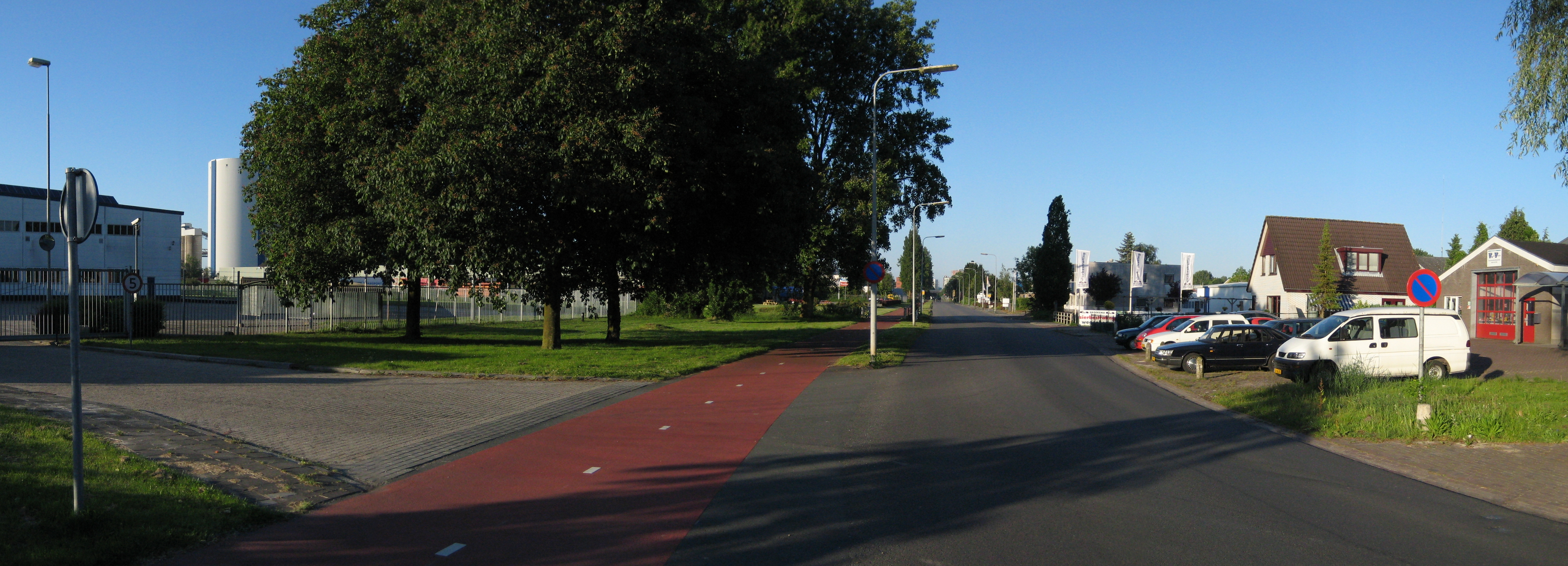 The Peizerweg in the Dutch city of Groningen.